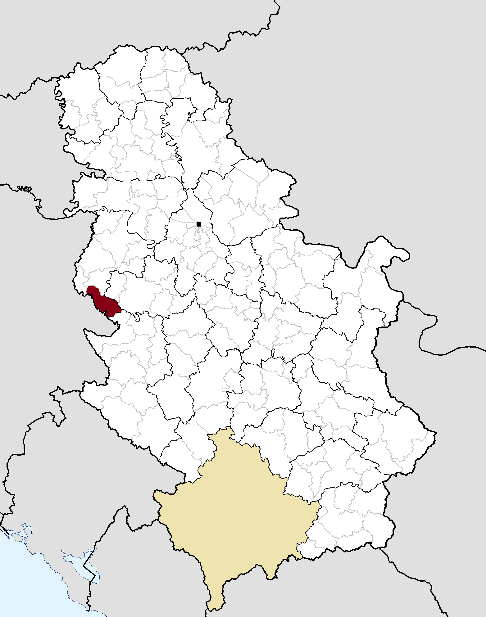 Municipal location in Serbia